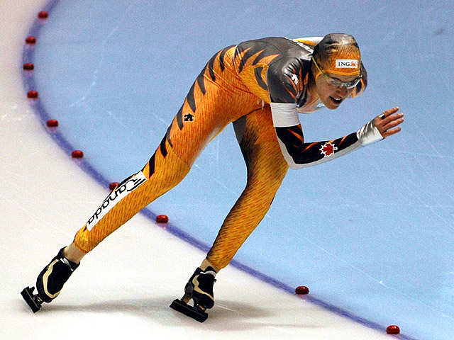 Clara Hughes at the World Championships 2007 in Heerenveen.